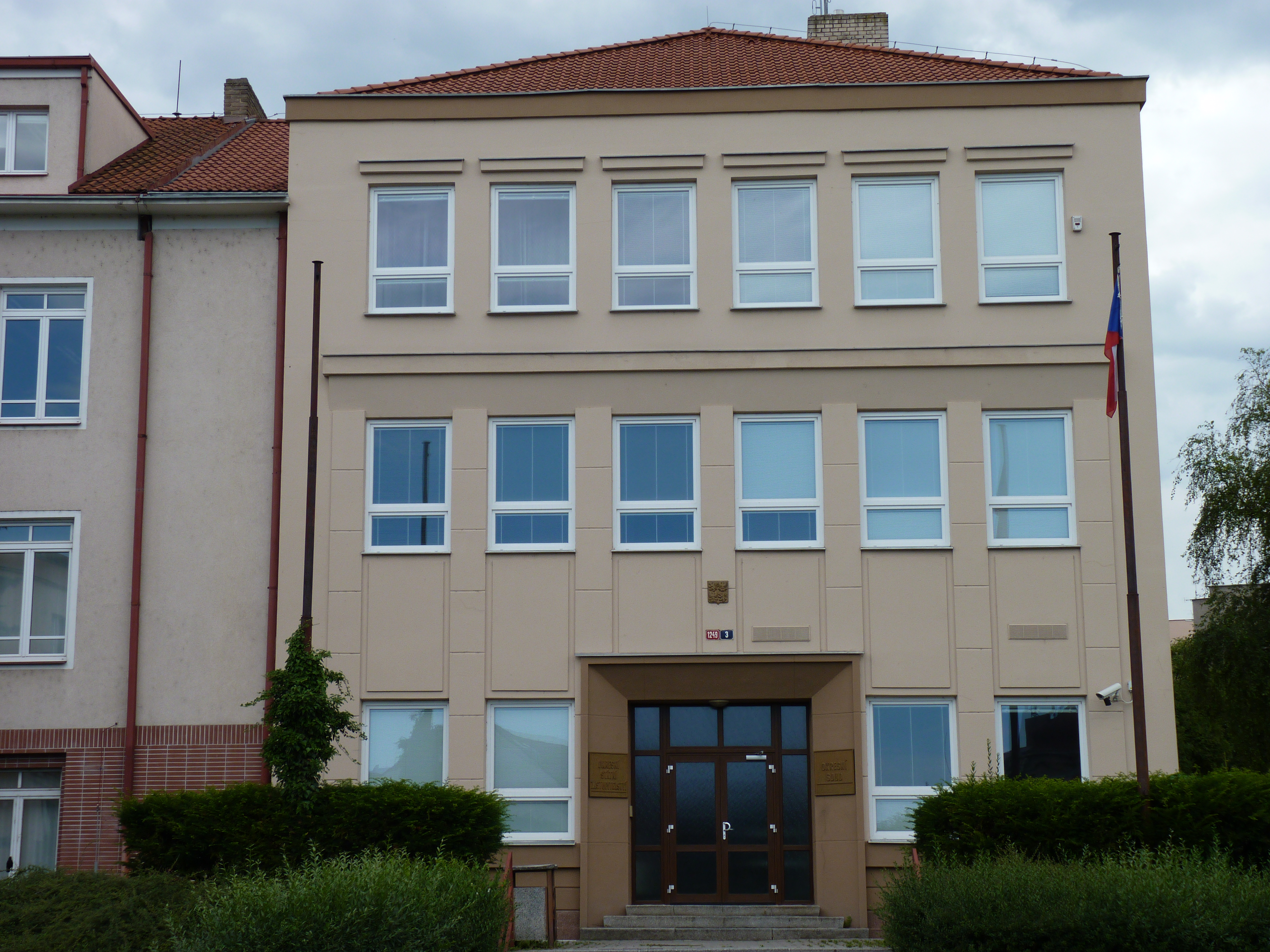 District court Beroun (Czech republic)